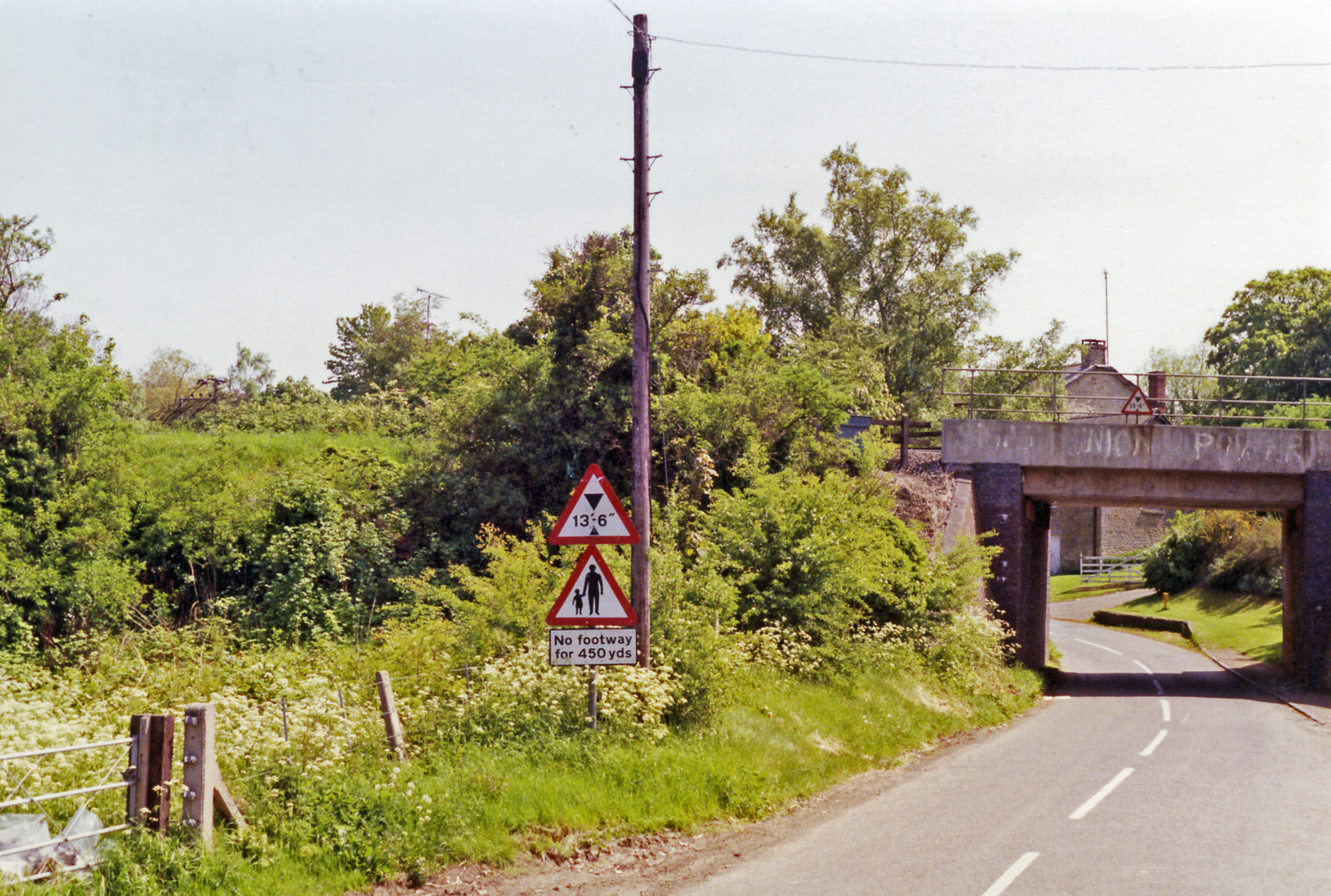 Site of Fritwell & Somerton station, 1992. View eastward at the bridge under the ex-GWR (London, Reading, Didcot etc.-) Oxford (to left) - (to right) Banbury etc. main line, still a major route. The station had been on the right and was closed 2/11/64